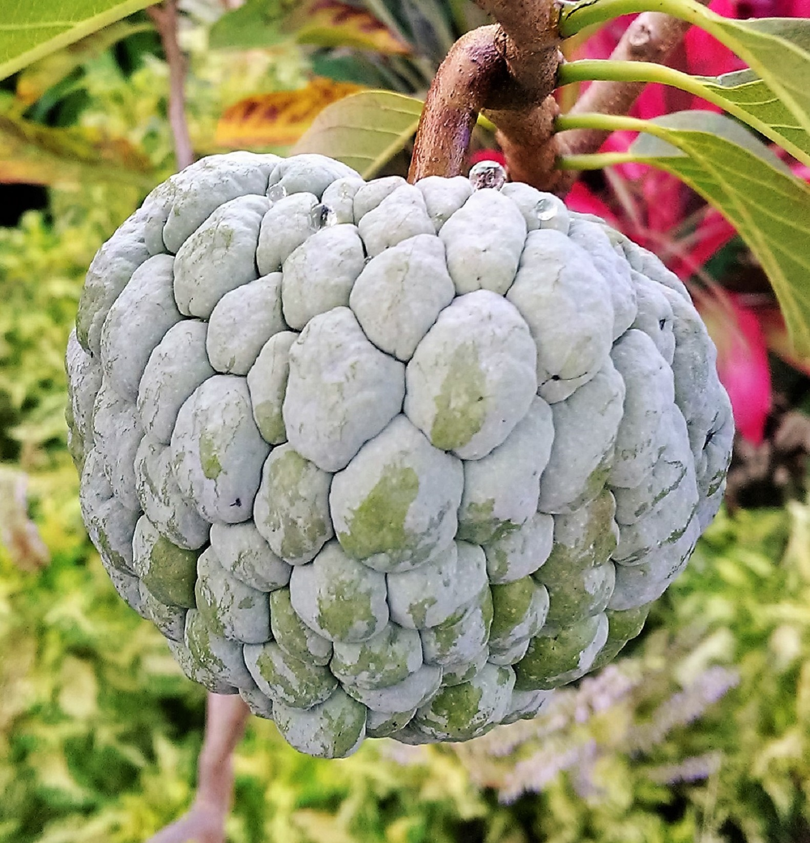 Annona Squamosa